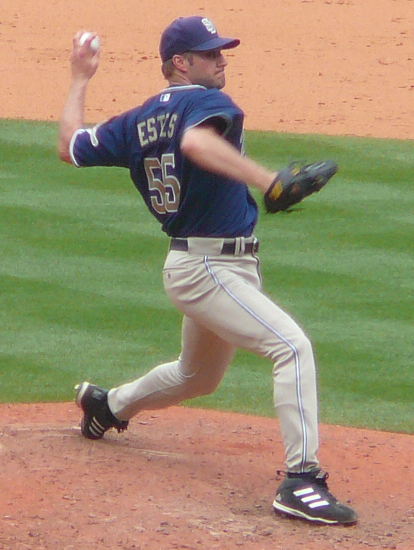 Please attribute this photo by name if used in places other than Wikipedia. 06:22, 29 May 2008 . . Chrisjnelson . . 414×550 (214 KB)